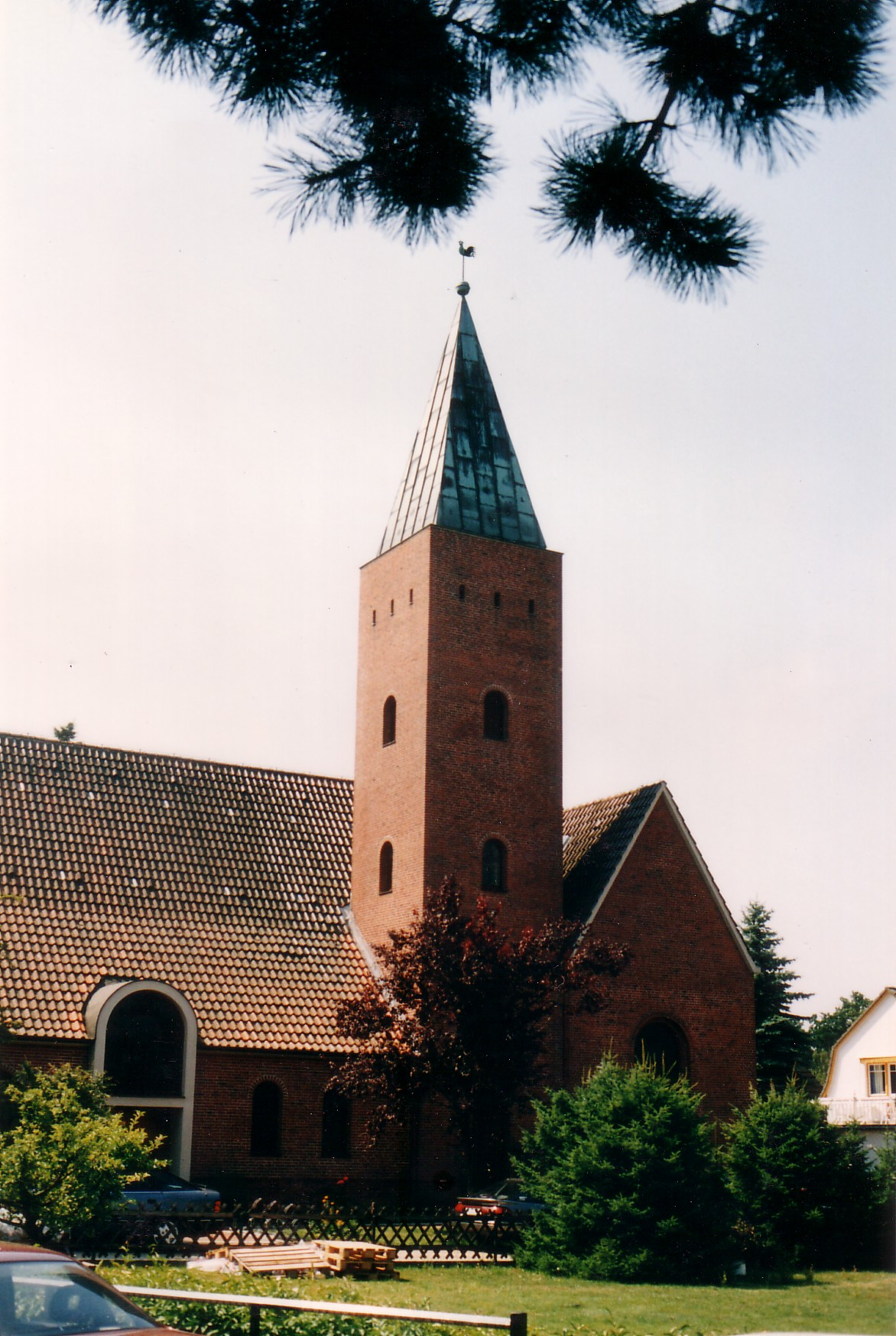 Die Sankt-Petri-Kirche in Niendorf (Ostsee). Photo: Hans Olav Lien.